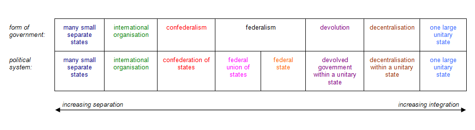 This diagram illustrates the various forms of government, and their associated political systems, located along the pathway of regional integration or separation.